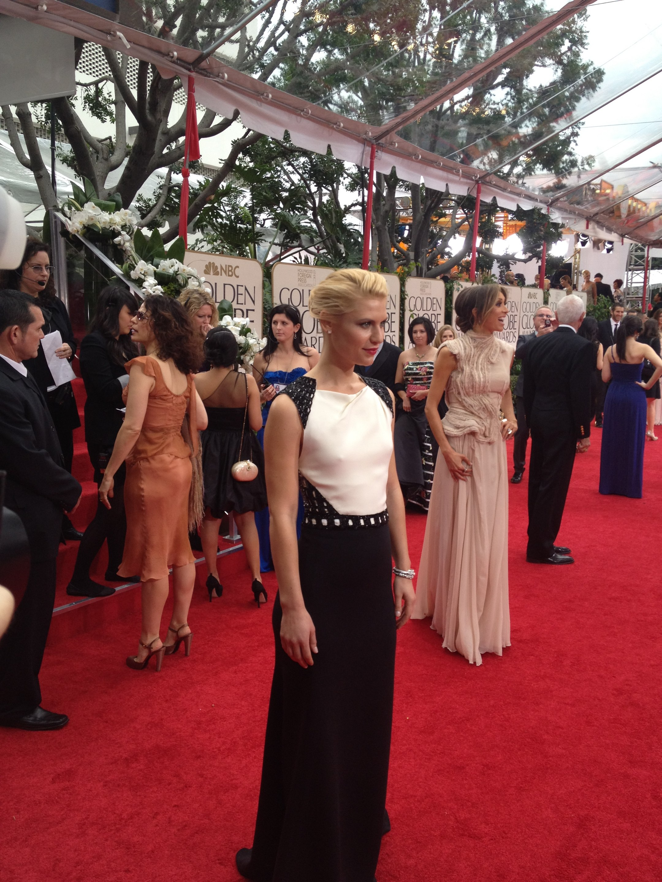 69th Annual Golden Globes Awards.